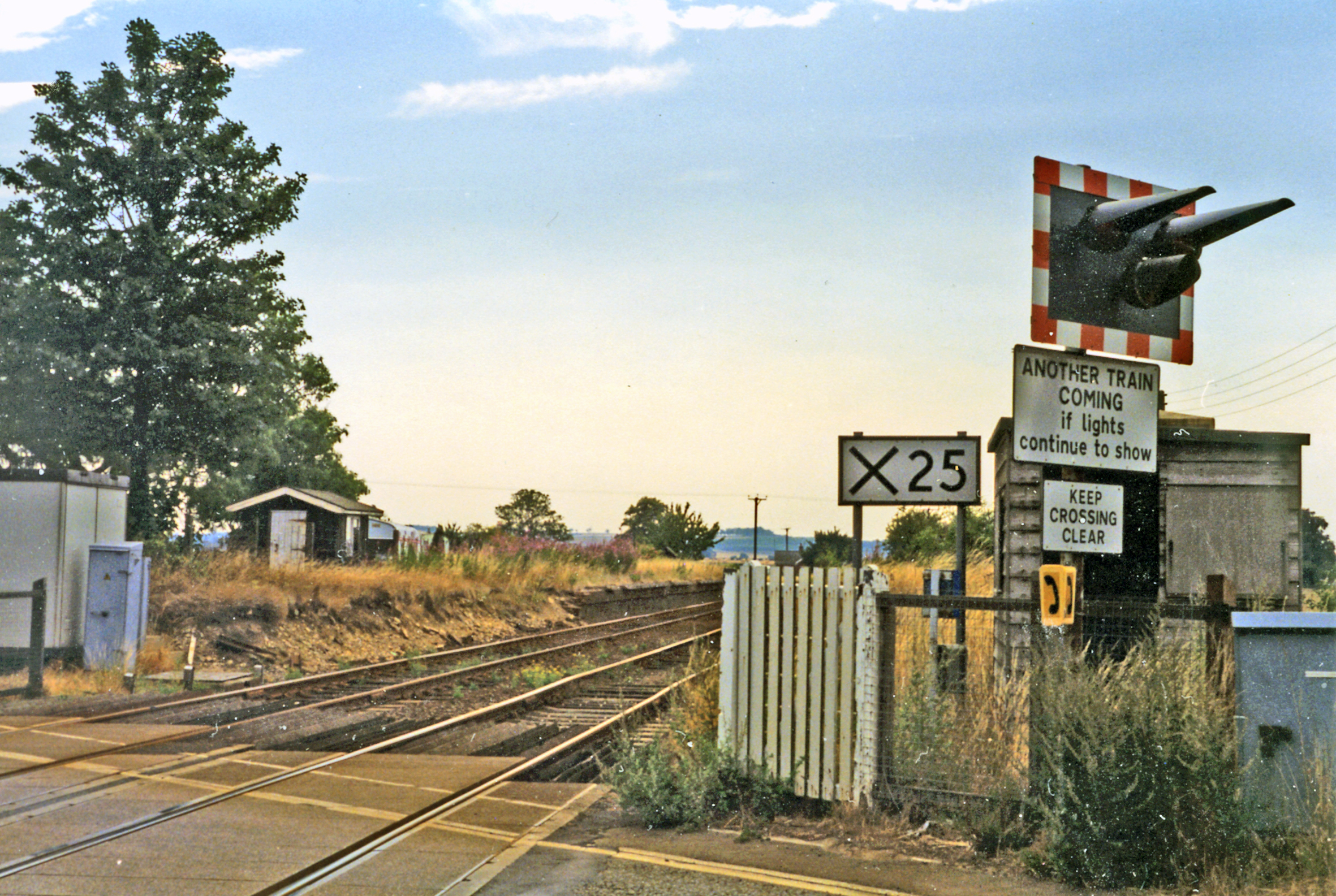 Site of Honington station, 1995. View SW at the level-crossing with the A607, towards Grantham: ex-GNR Grantham - Sleaford - (Boston) line, also junction of the line to Lincoln until 1/11/65. The station was closed to passengers 10/9/62, to goods 27/4/64